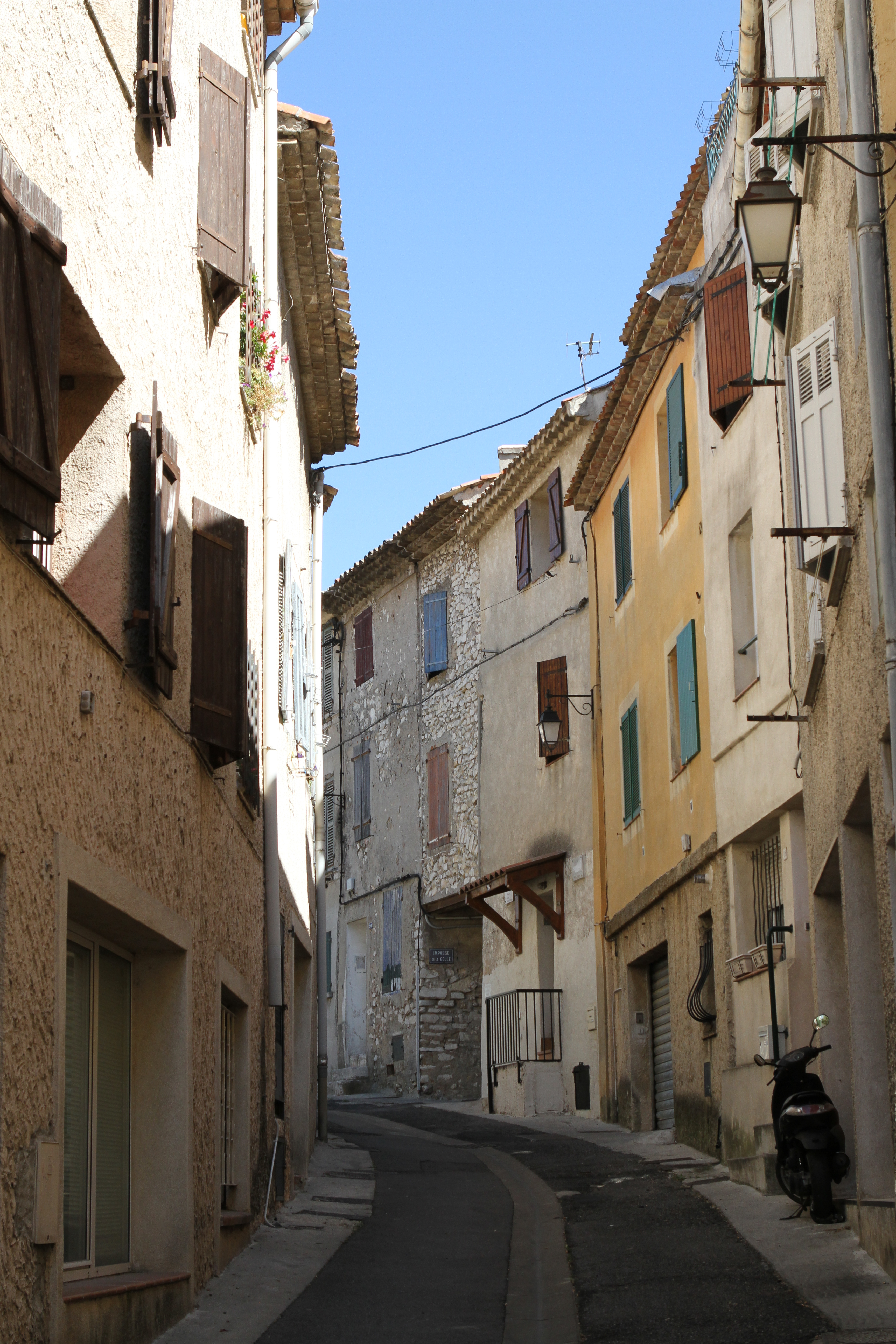 The commune of Éguilles (Bouches-du-Rhône, France).